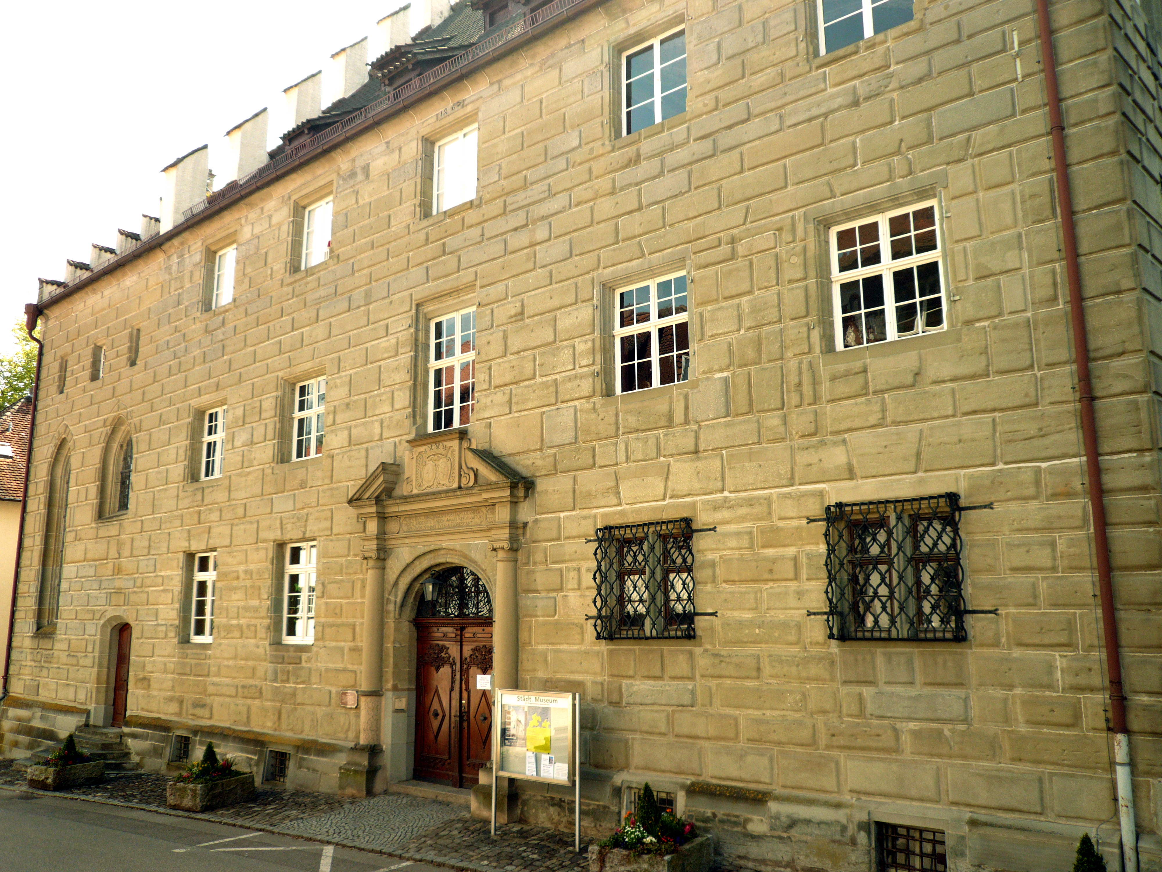 Renaissance building in Ueberlingen, today city museum